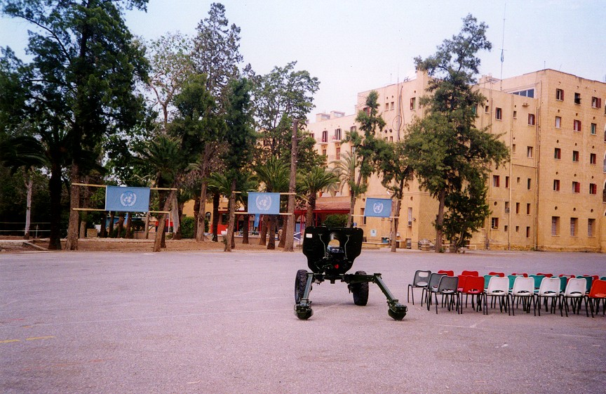 A view of the Ledra Palace Hotel, headquarters of the British contingent of UNFICYP in sector 2 of the UN Buffer Zone in Cyprus.